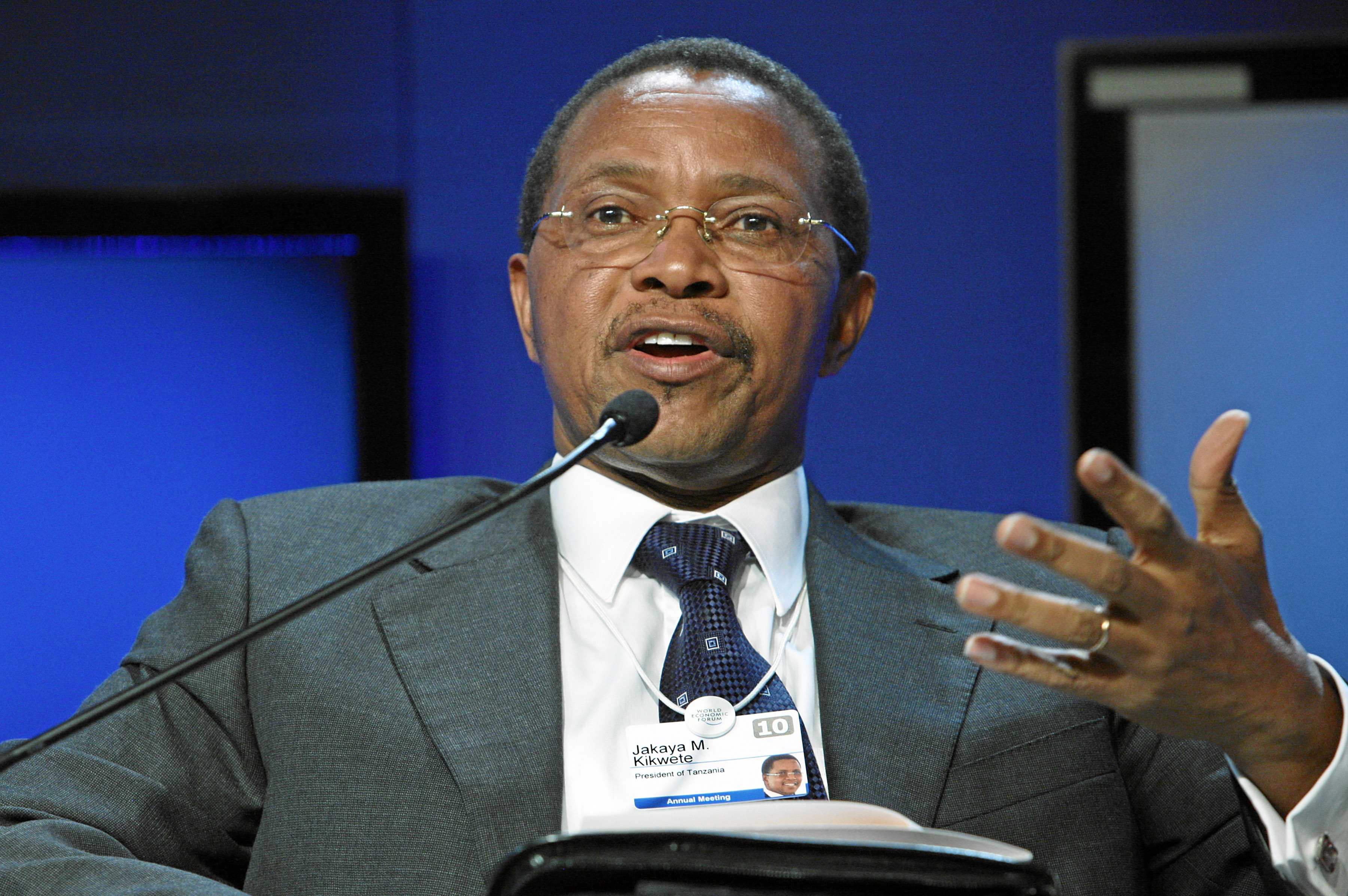 Jakaya Kikwete at the World Economic Forum 2010.